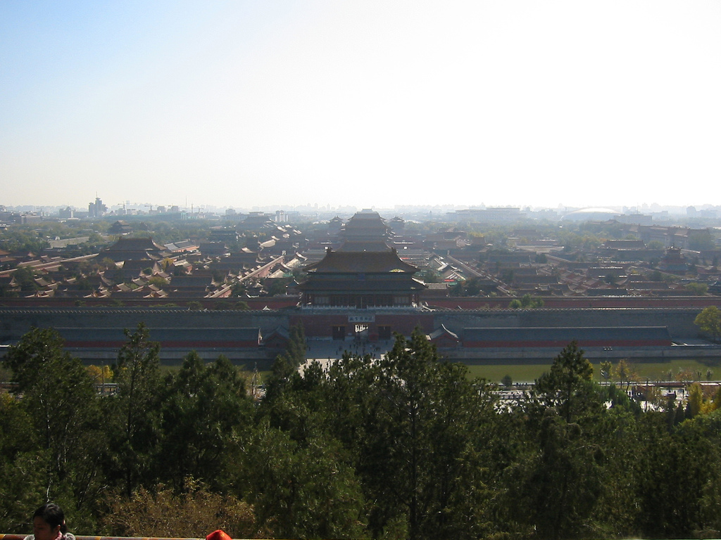 The Forbidden City in Beijing